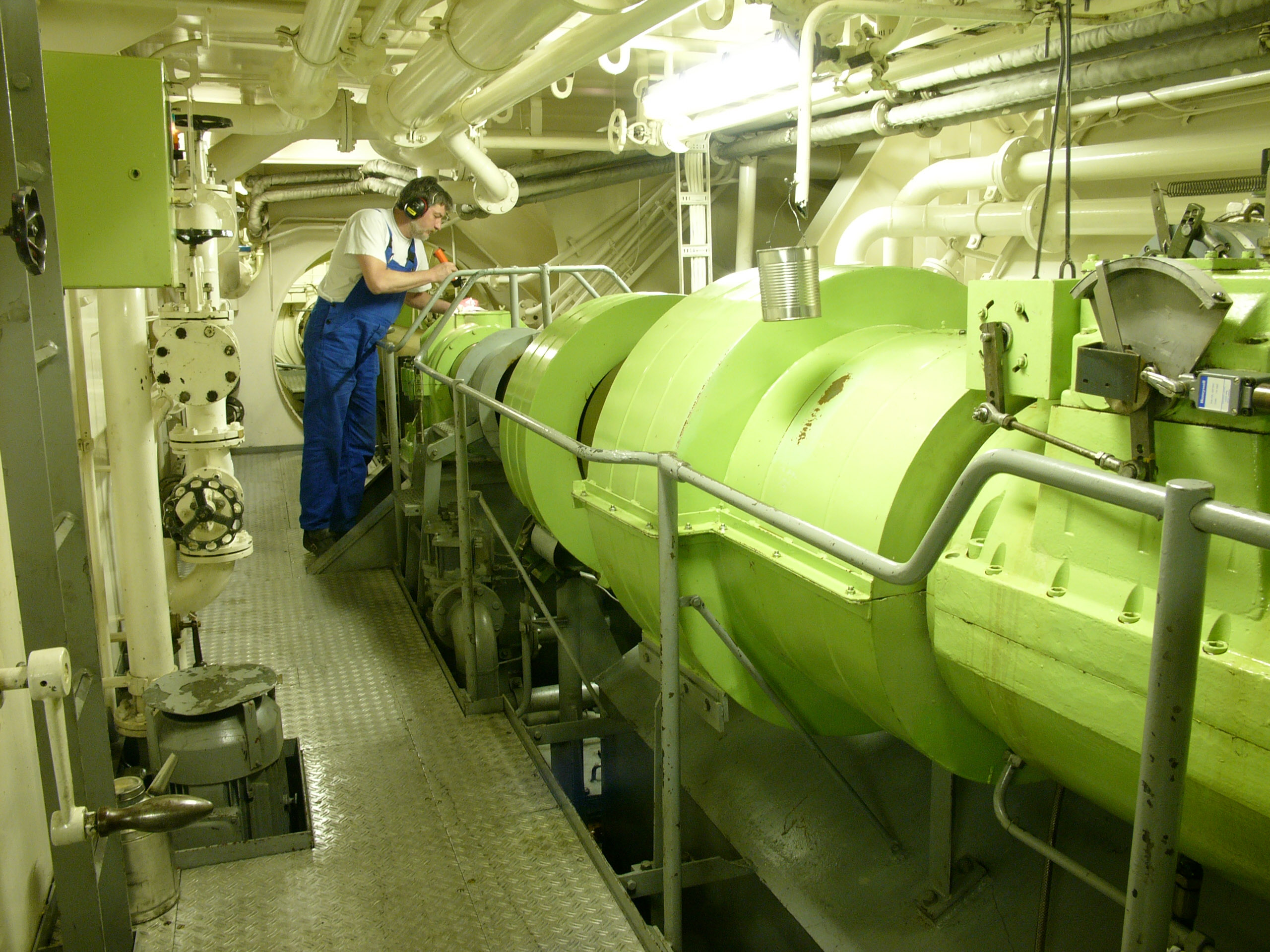 Photo from the German research vessel POLARSTERN shaft tunnel, port side